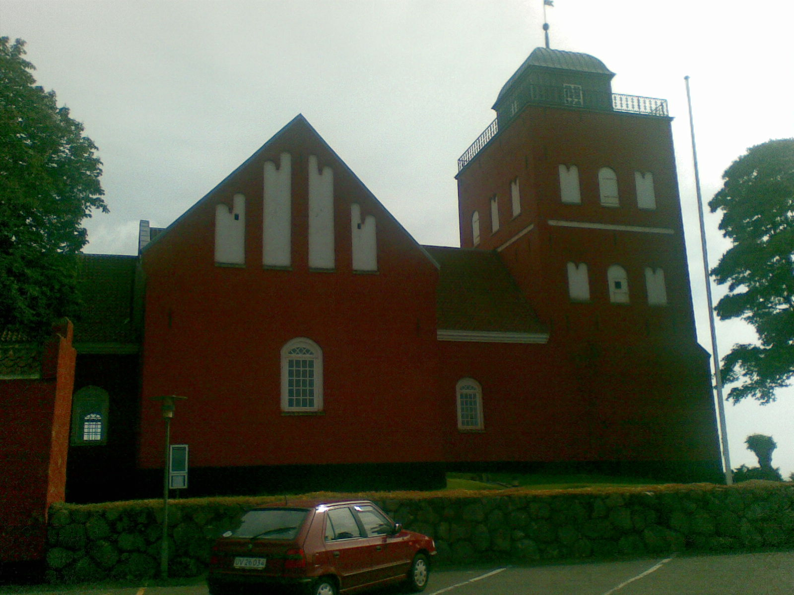 Dreslette church in the parish of Dreslette in Denmark